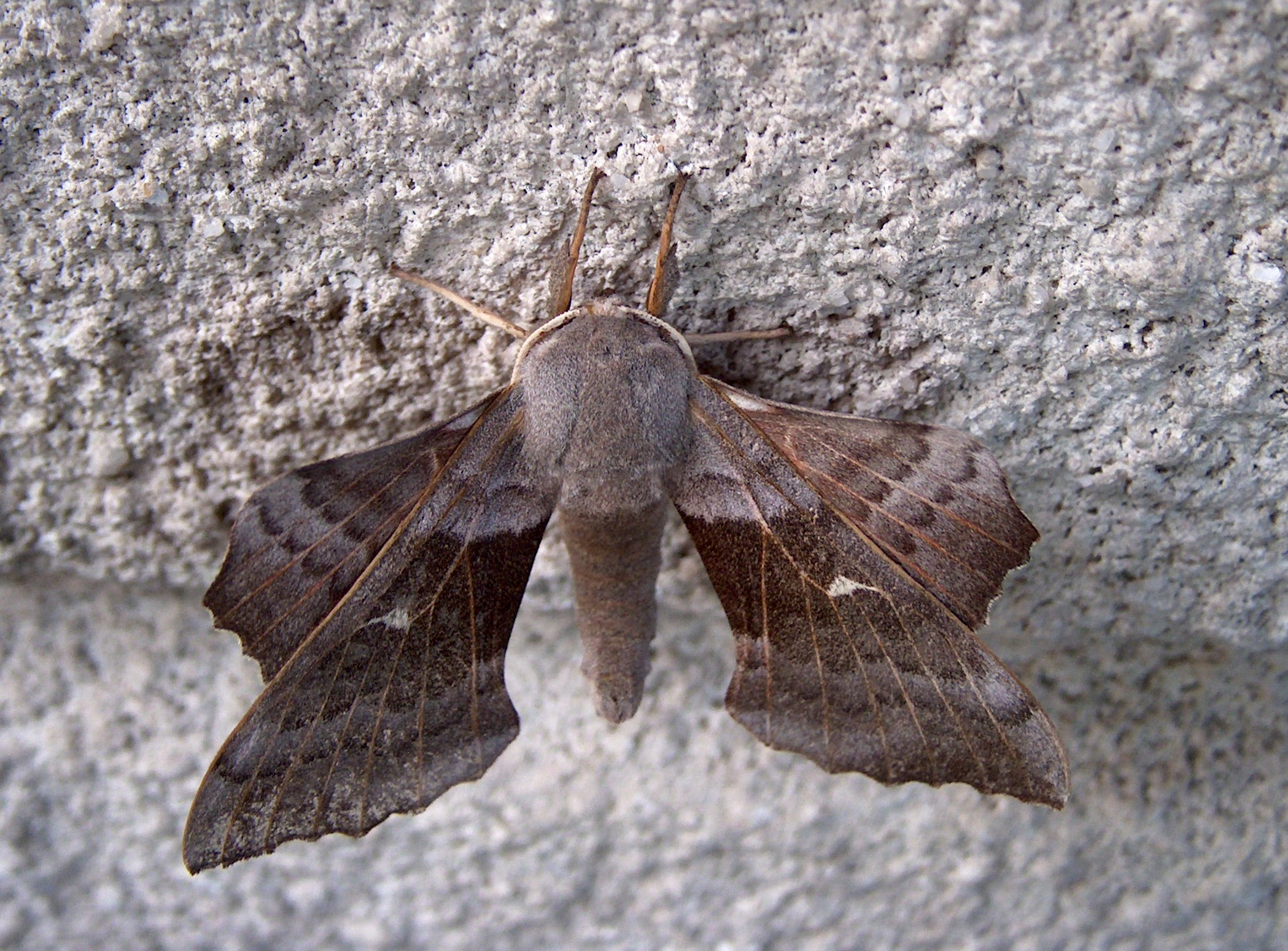 Laothoe populi on the wall in the morning